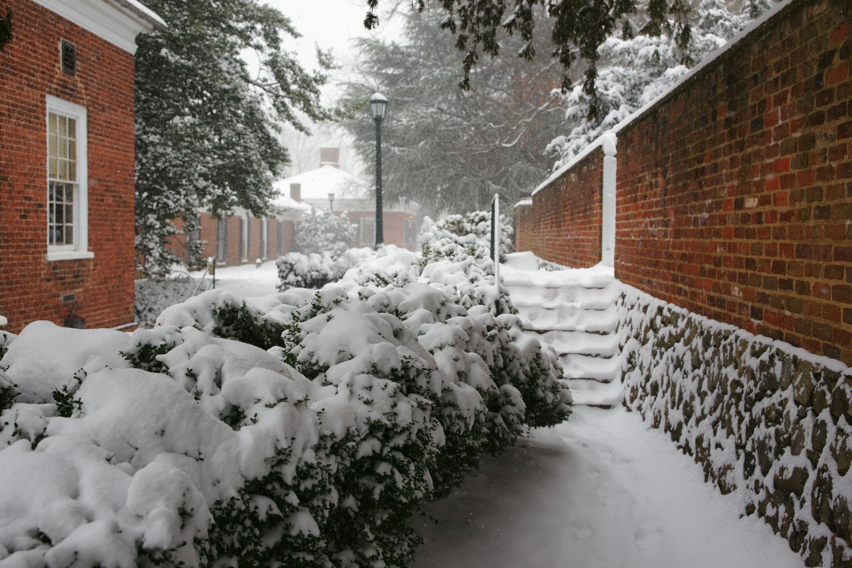 Between the Gardens and the East Range of the University of Virginia, USA: The back (i.e. western) side of the East Range with Hotels B ("Washington Hall," at the left edge of the picture) and D (in the middle); at the right edge of the picture the back wall of the Garden of Pavilion II.